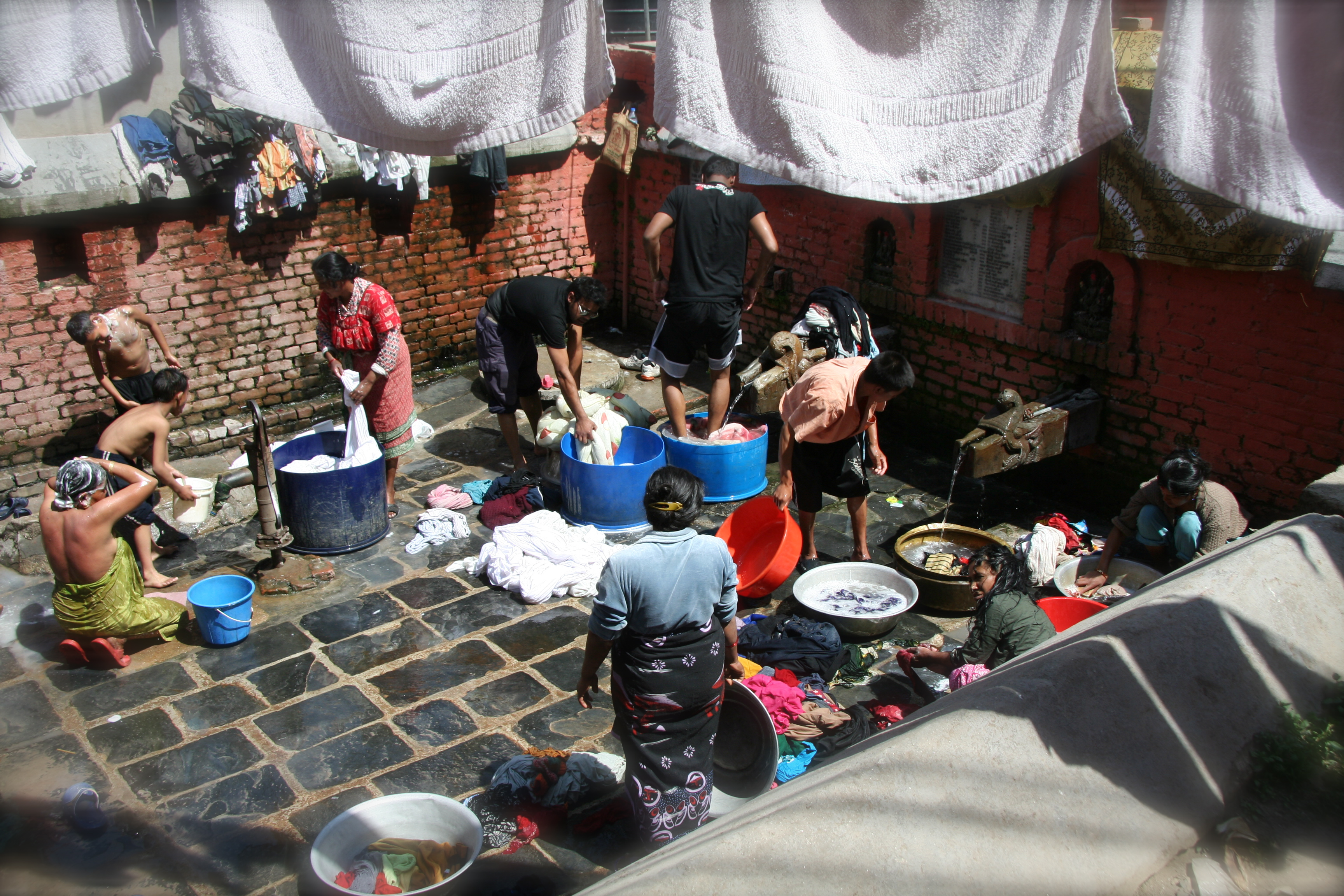 Stone Spouts, Swayambhu Marg, Kathmandu, Nepal.